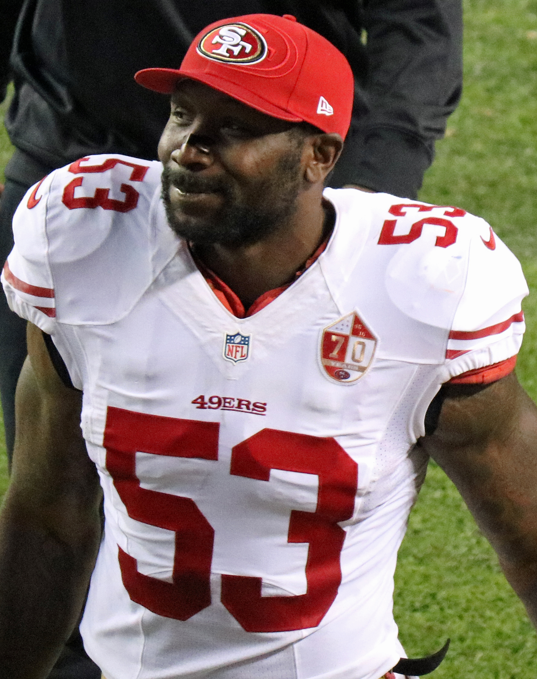 NaVorro Bowman, a player on the National Football League.